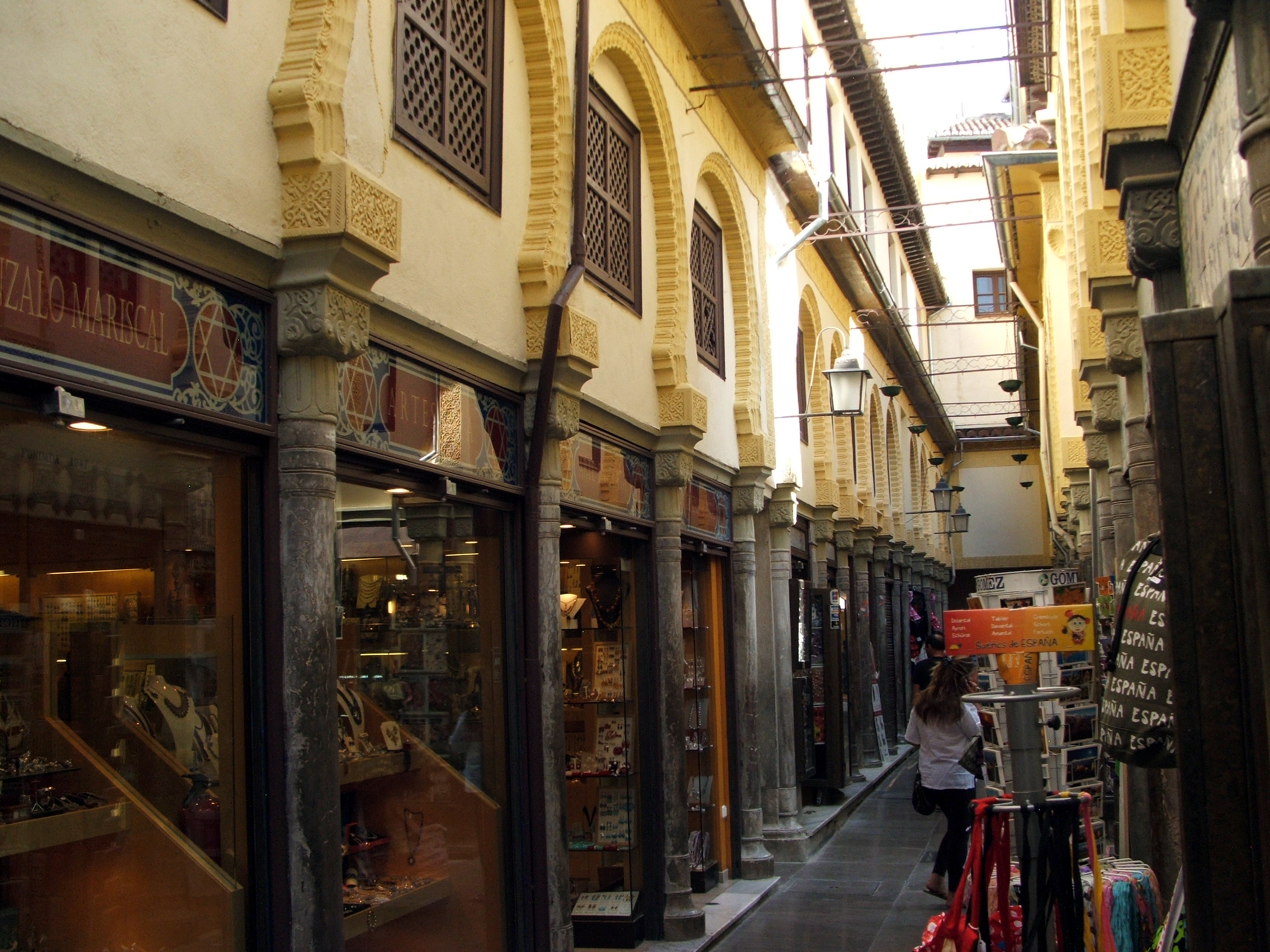 Alcaiceria, Granada (Spain).